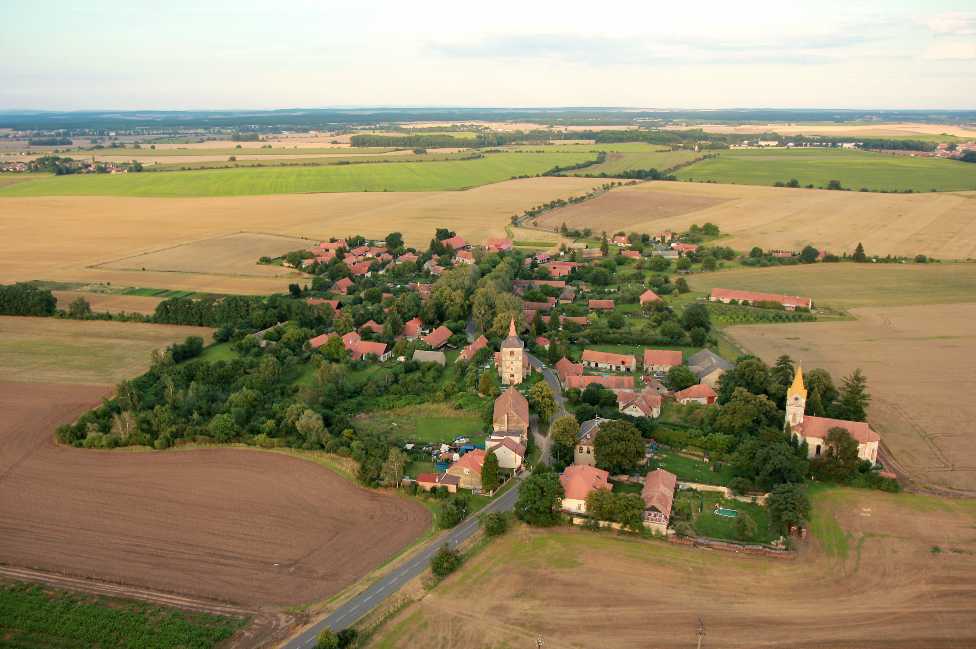 Aerial view of Bošín, part of Křinec village, Czech Republic